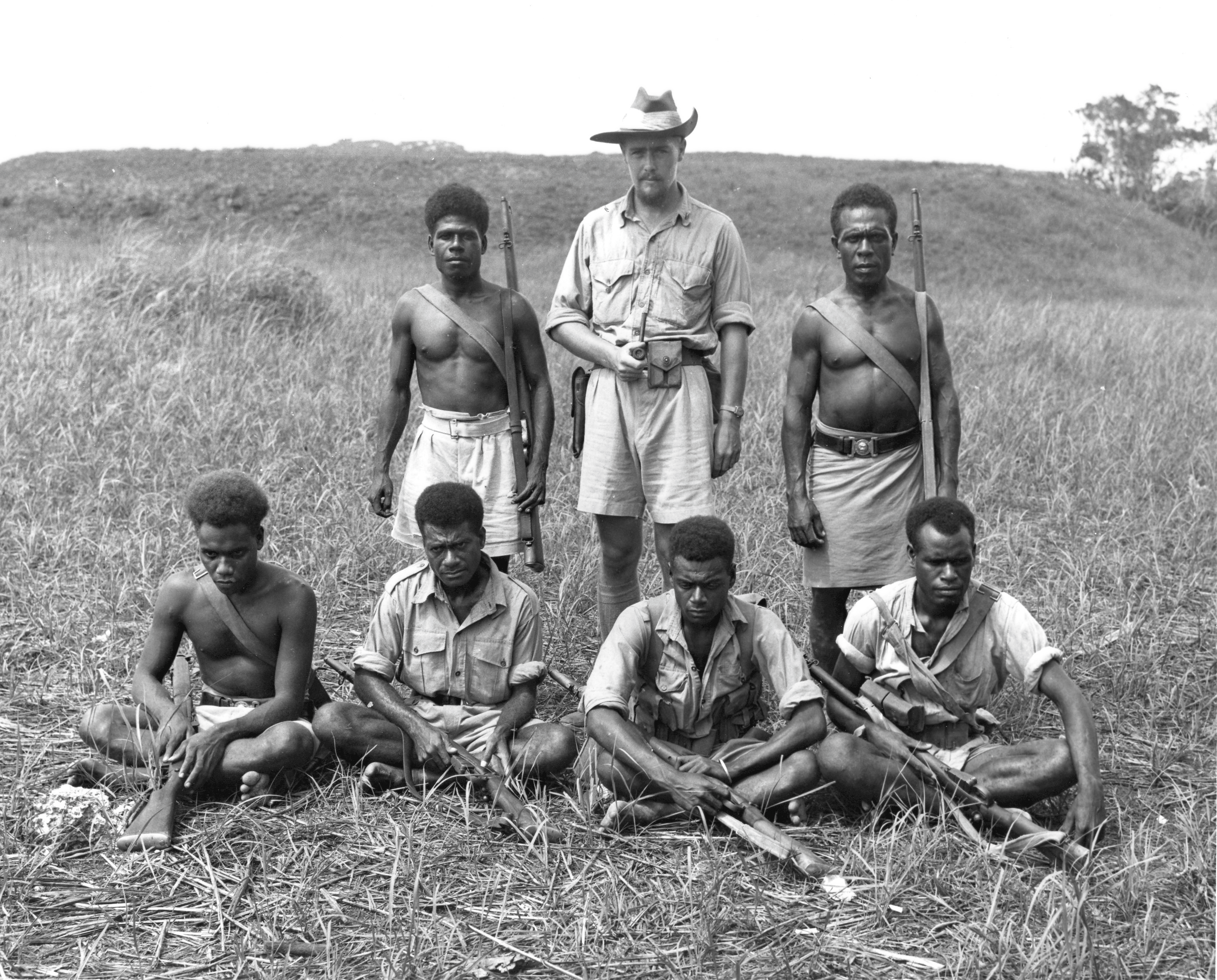 Original description: "A BOON TO AMERICANS – Natives such as these have been instrumental in the progress made by the Marines. These native policemen helped Captain Martin Clemens, Solomon Islands Defense Forces. An Australian, Captain Clemens remained on Guadalcanal throughout the Japanese occupation."